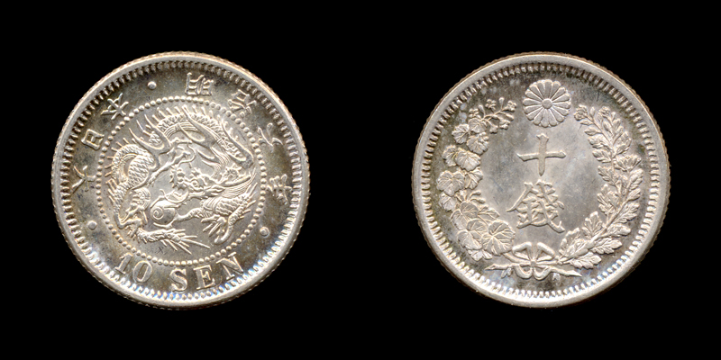 10sen-M6